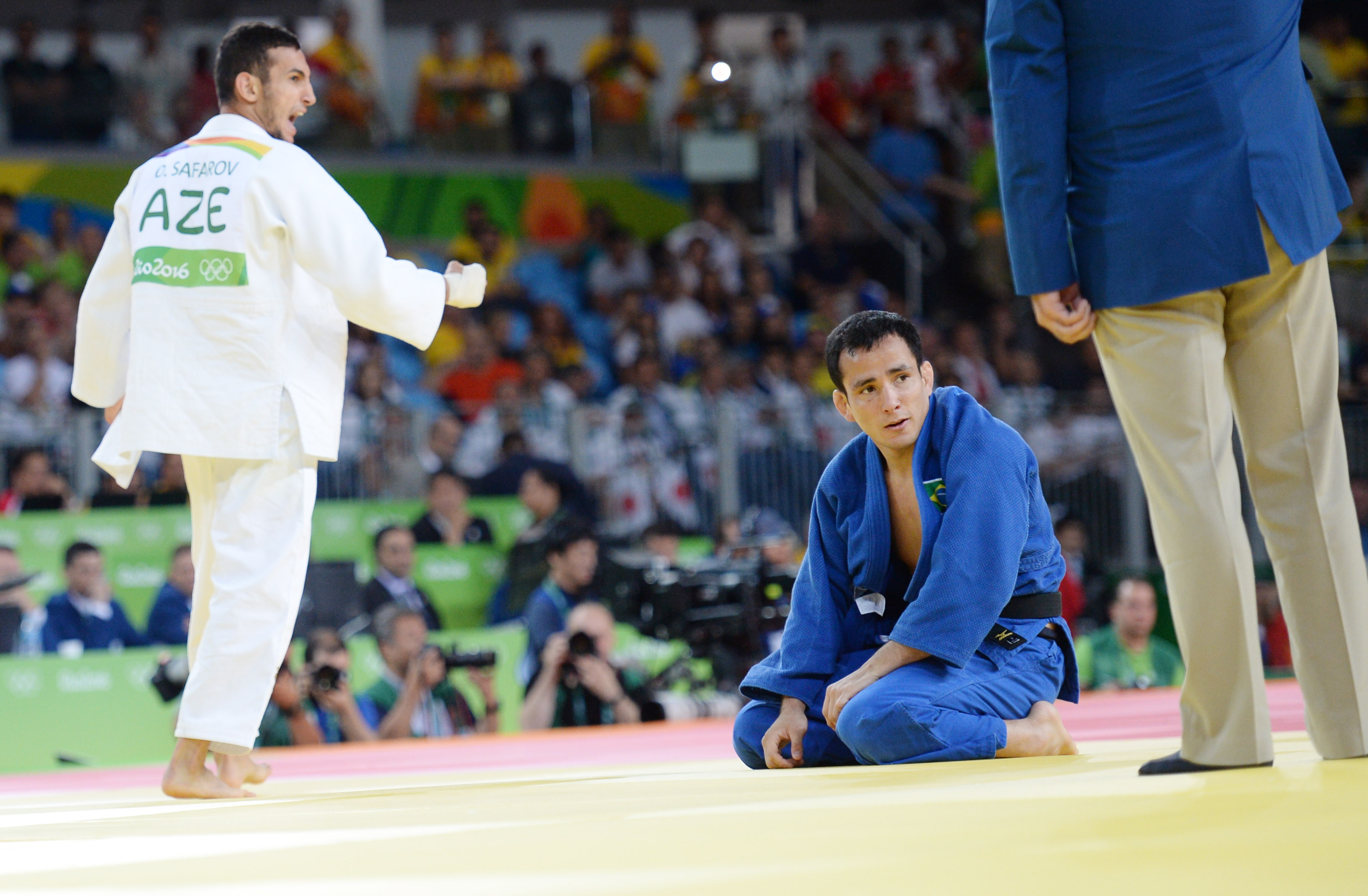 Judo at the 2016 Summer Olympics, Safarov vs Kitadai